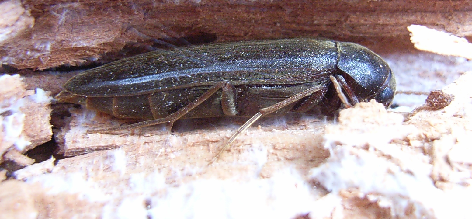 Serropalpus barbatus from Southern Germany (Kreis Tuttlingen) 700 m